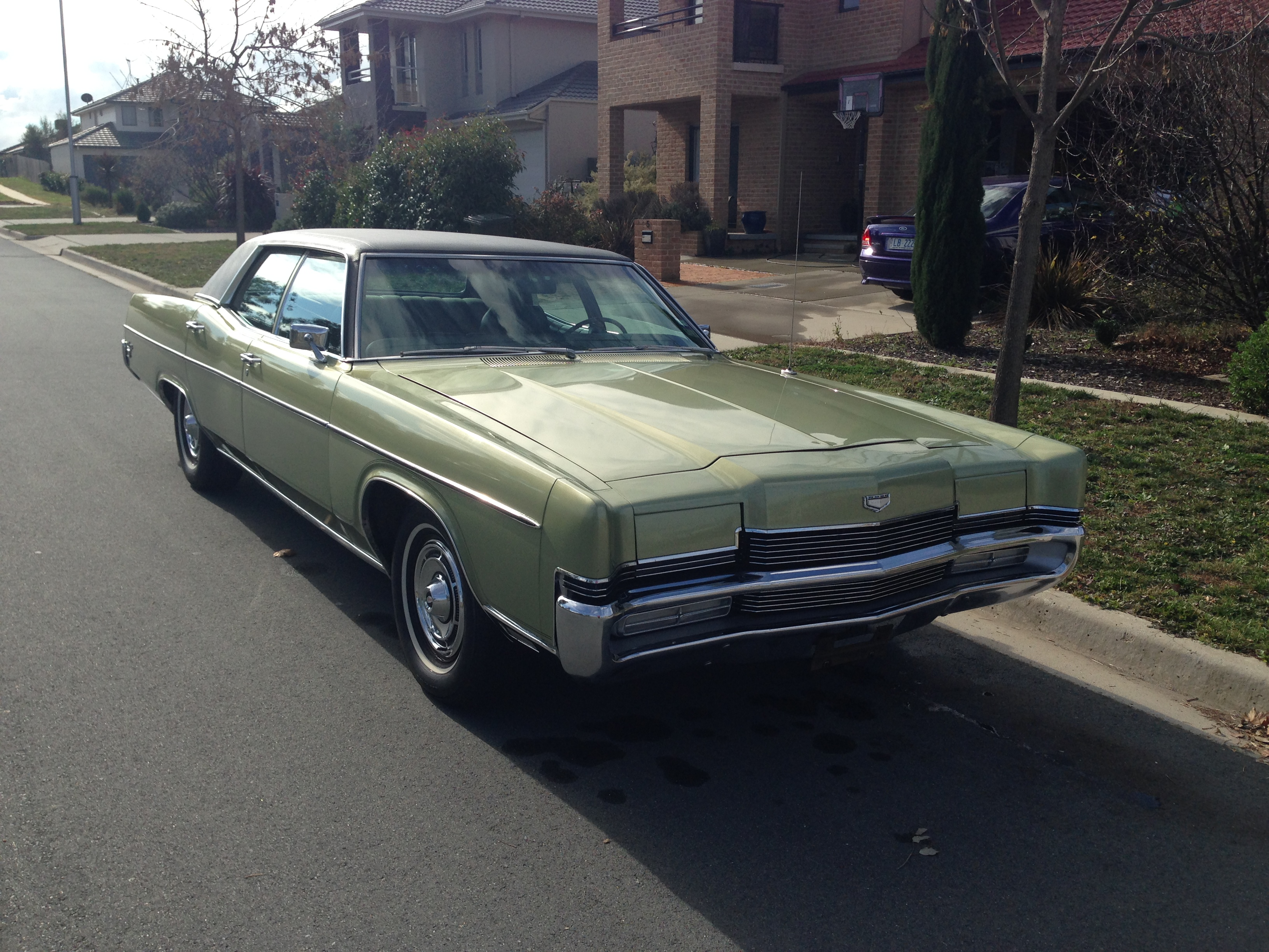 69 mercury marquis in australia